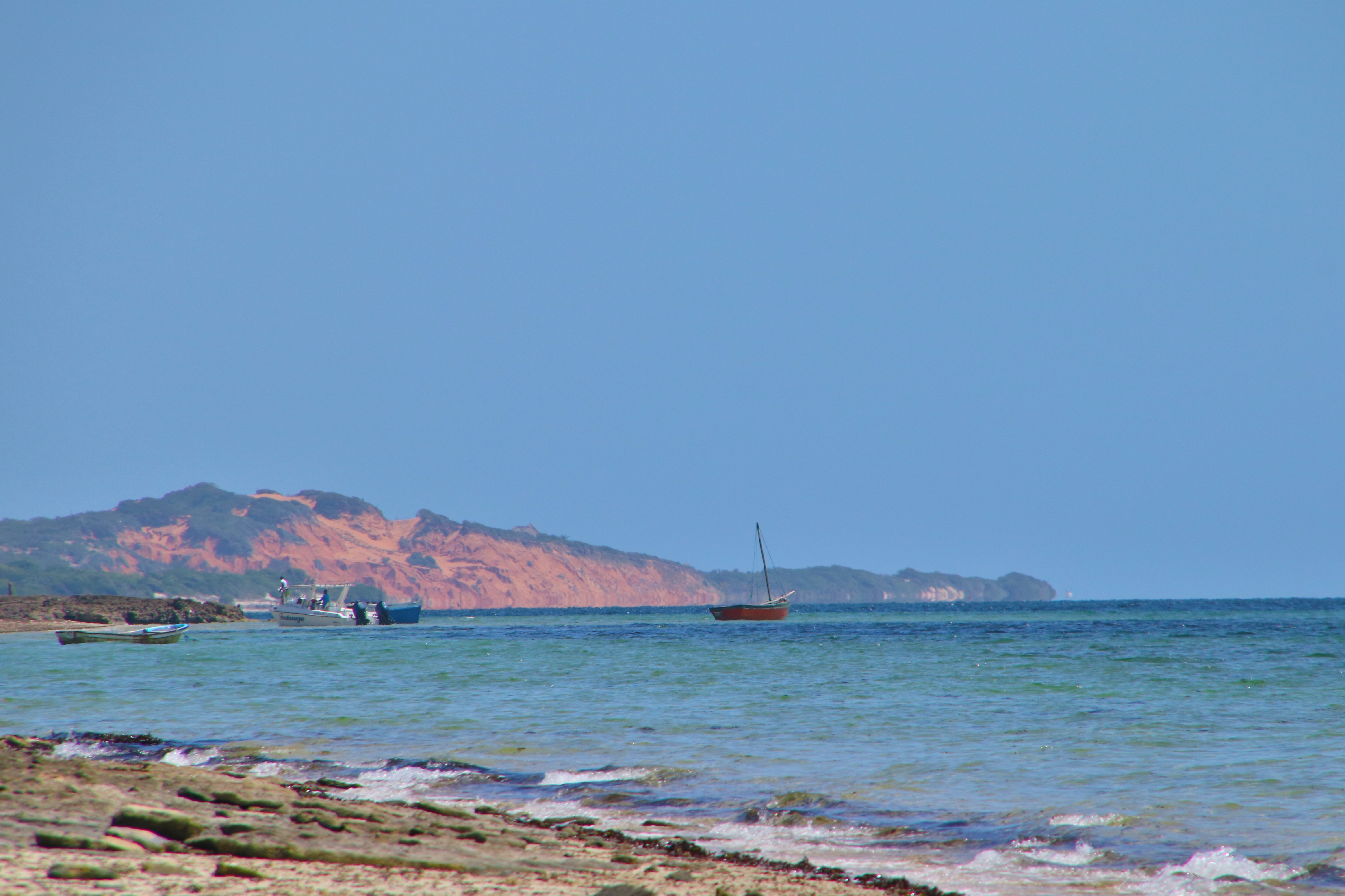 Vilaculos beach Mozambique This photo was taken by Tom Corser and is © Tom Corser 2020. This photo may be reproduced under the terms of the Creative Commons Attribution-ShareAlike 3.0 Unported Licence [1] (unless otherwise stated). Please credit this photo Tom Corser If using this photo, make sure you properly credit and specify the licence that this photo is licensed under. (E.g. "Photo by Tom Corser Licensed under Creative Commons Attribution-ShareAlike 3.0 Unported Licence: If you would like to use this photo under a different license, please contact me via or . Attribution: Tom Corser